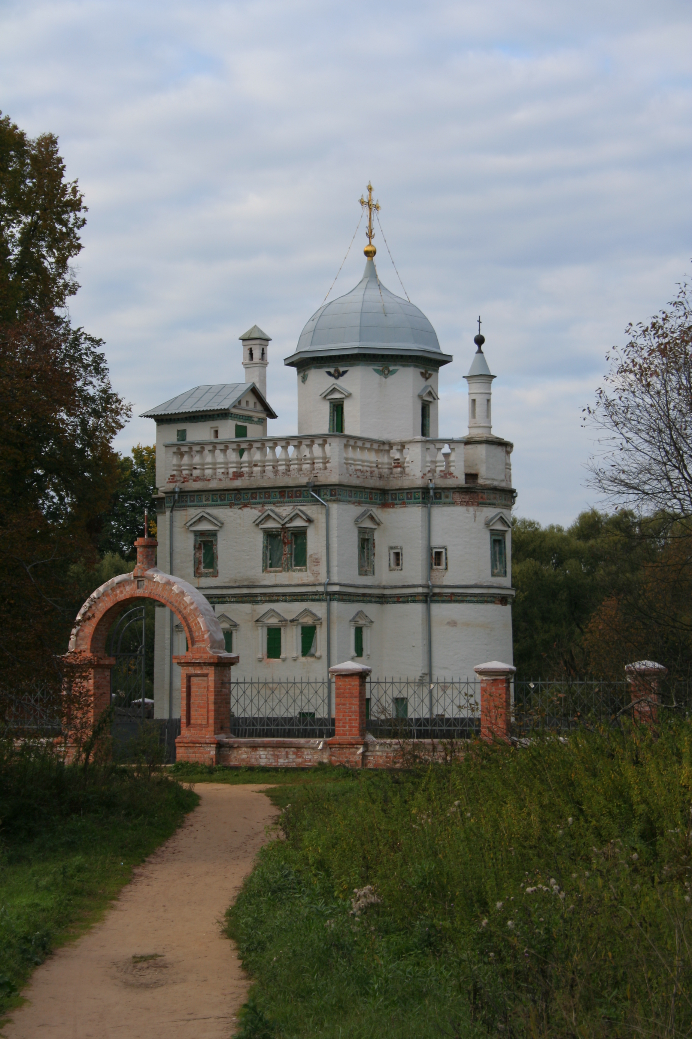 New Jerusalem Monastery in Istra, Russia. The Garden. Abode of Patriarch Nikon.